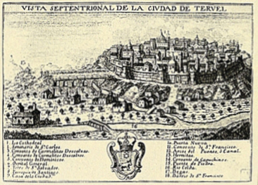 Grabado de Teruel en el siglo XVIII